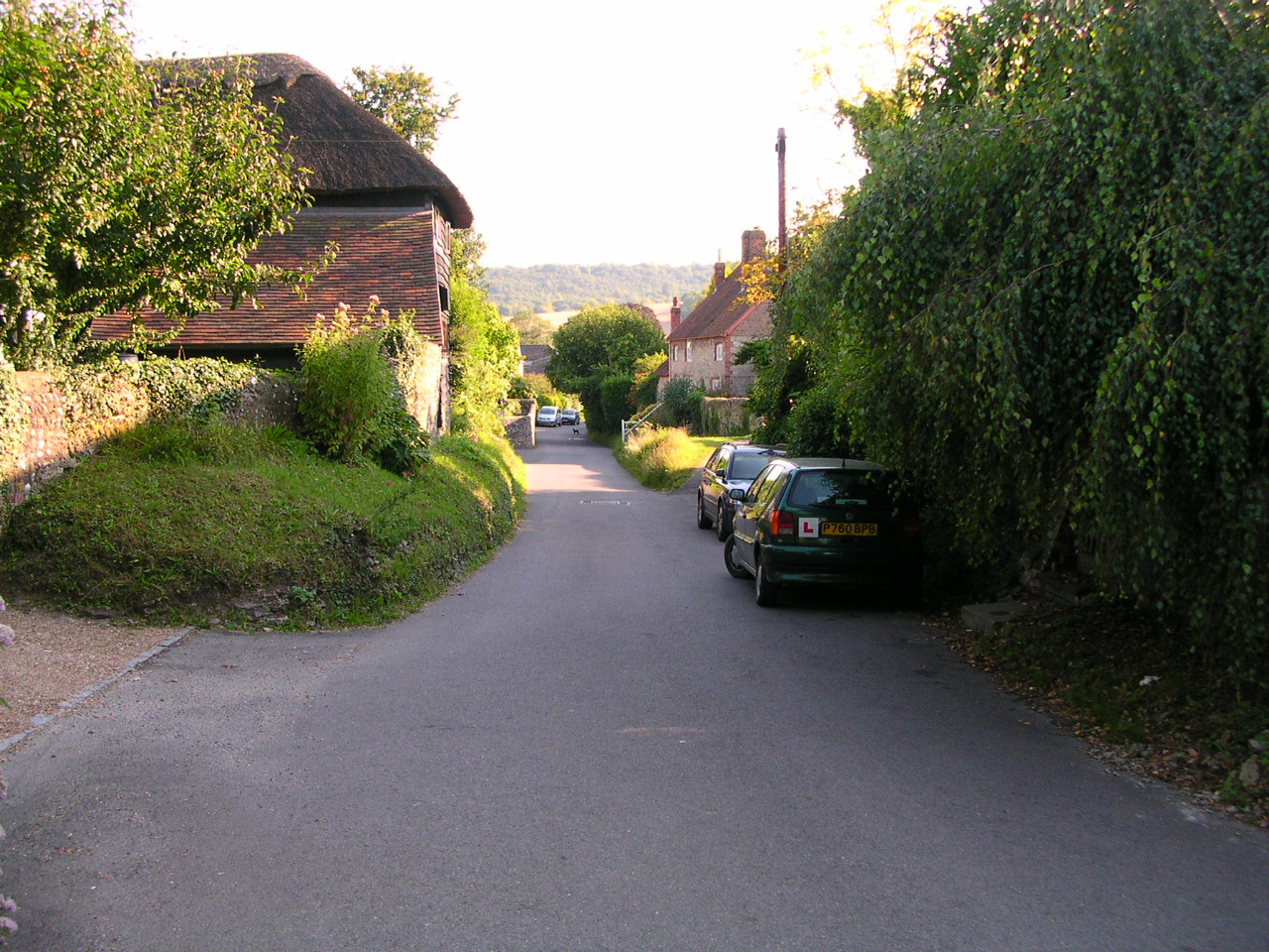 Taken in August 2007